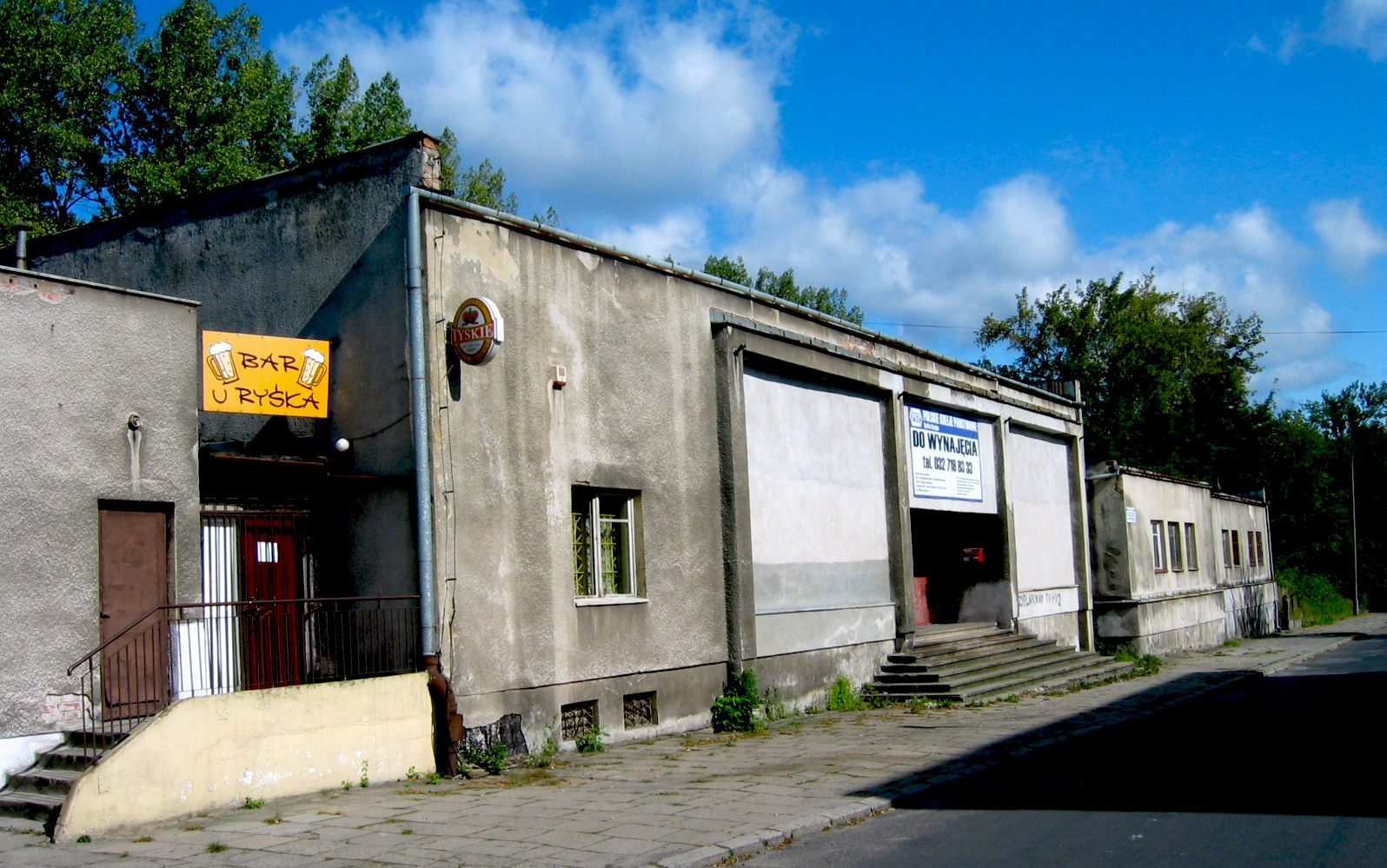 Train station Chrzanów-Główny